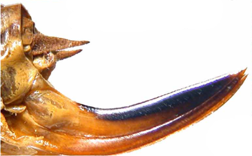 Lateral view of the ovipositor of species Roeseliana roeselii (Orthoptera: Tettigoniidae: Platycleidini).